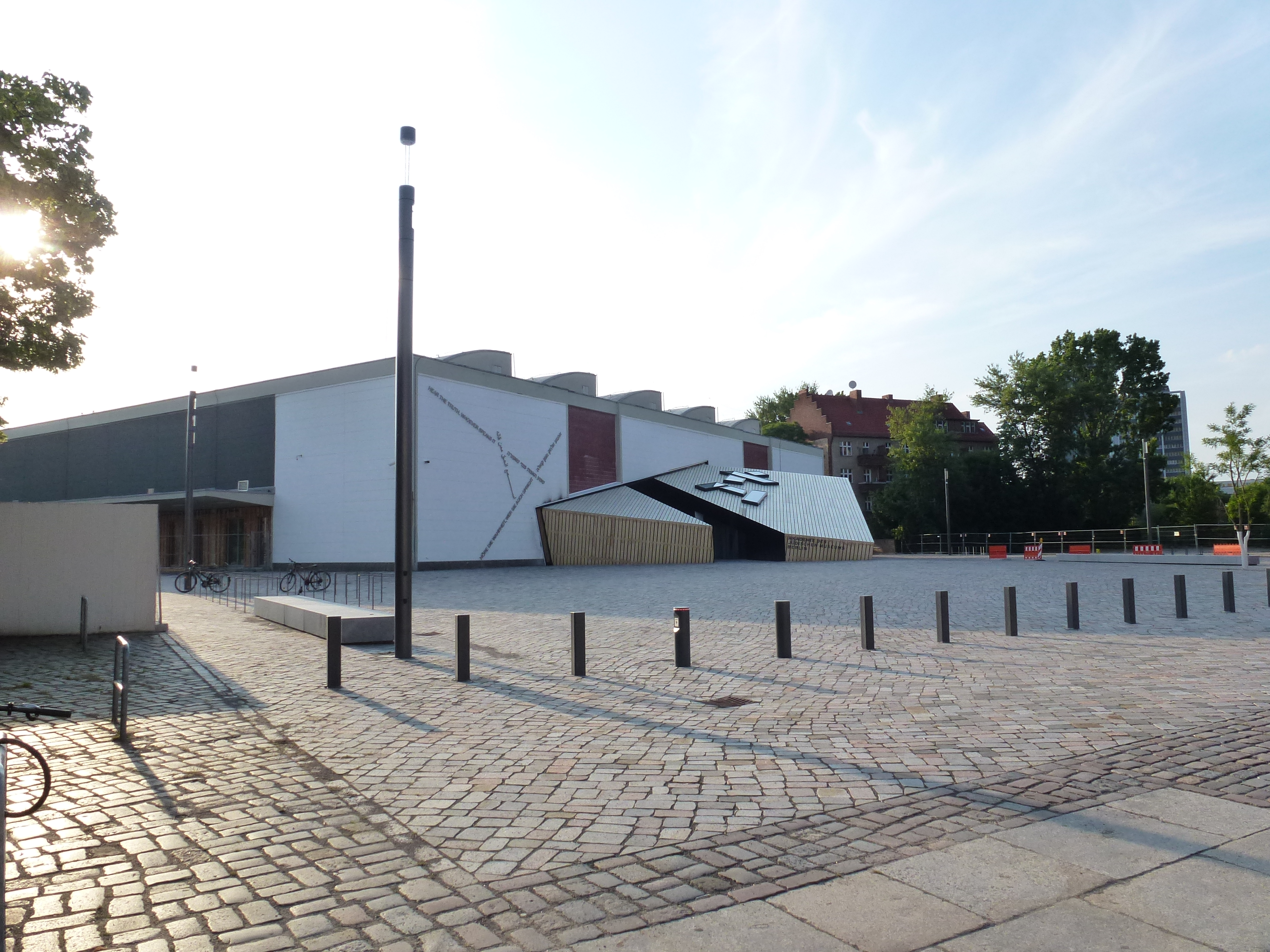 Berlin-Kreuzberg Fromet-und-Moses-Mendelssohn-Platz